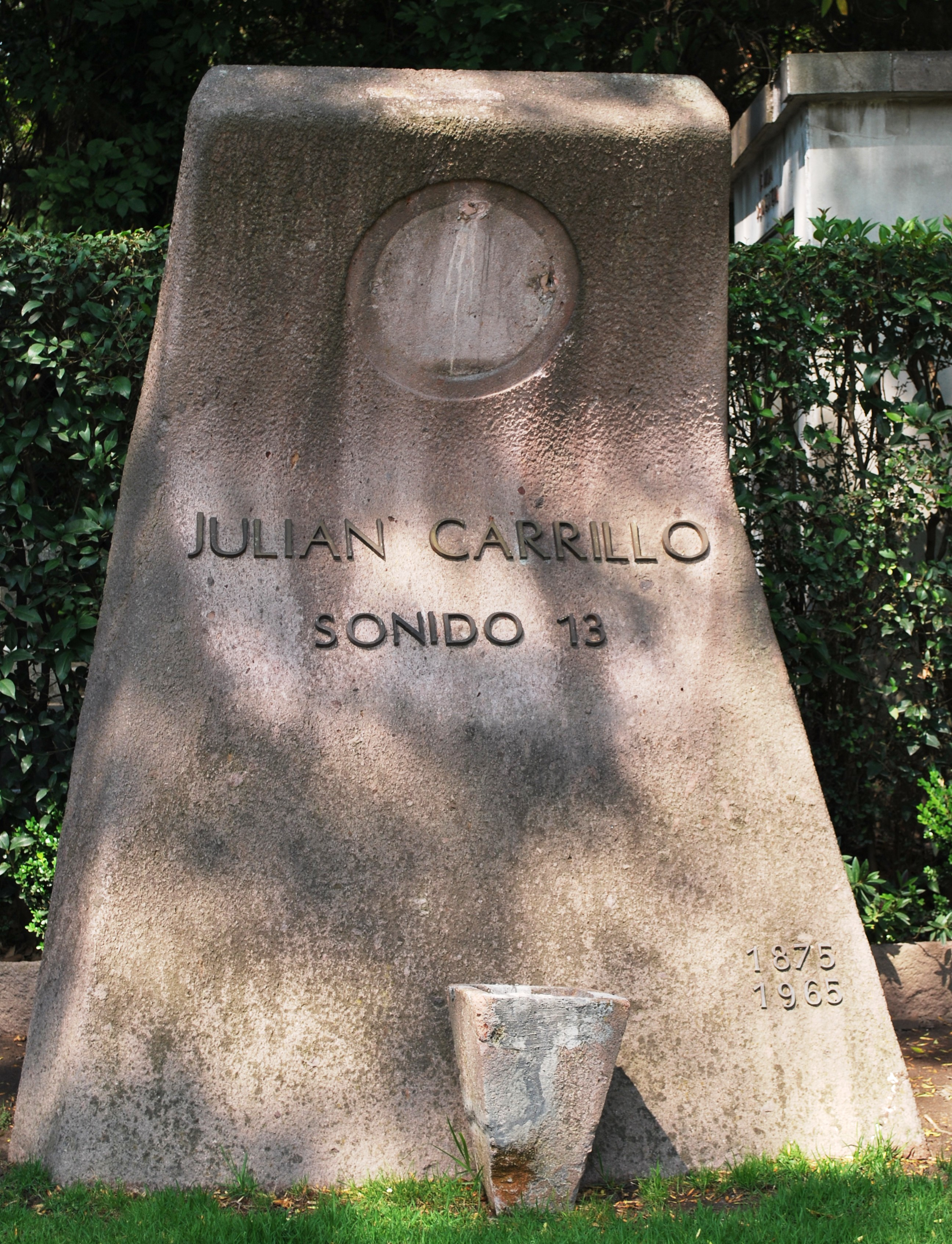 Tomb of Julian Carrillo in the Panteon Civil de Dolores cemetery in Mexico City